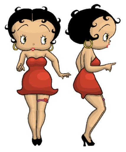 Here are the two original drawings that I colored and modified to make this one. Betty Boop character design, figure 1 from U.S. patent application D86224 "Design for a Doll or Similar Article". The original drawing was published on 9/24/1931, but my colored and modified version of the drawing was done on 2/4/2015. I colored the original black and white drawing, and I also altered the drawing a little bit. I lengthened the dress. I made the eyes more symmetrical. I shortened the lengthy eyelashes to model them after a more recent drawing of Betty Boop. I added green irises to the eyes which I modeled after a more recent drawing of Betty Boop. I fixed the unrealistic thicknesses of the knee joints. Lastly, I changed the thigh accessory to make it a heart design.